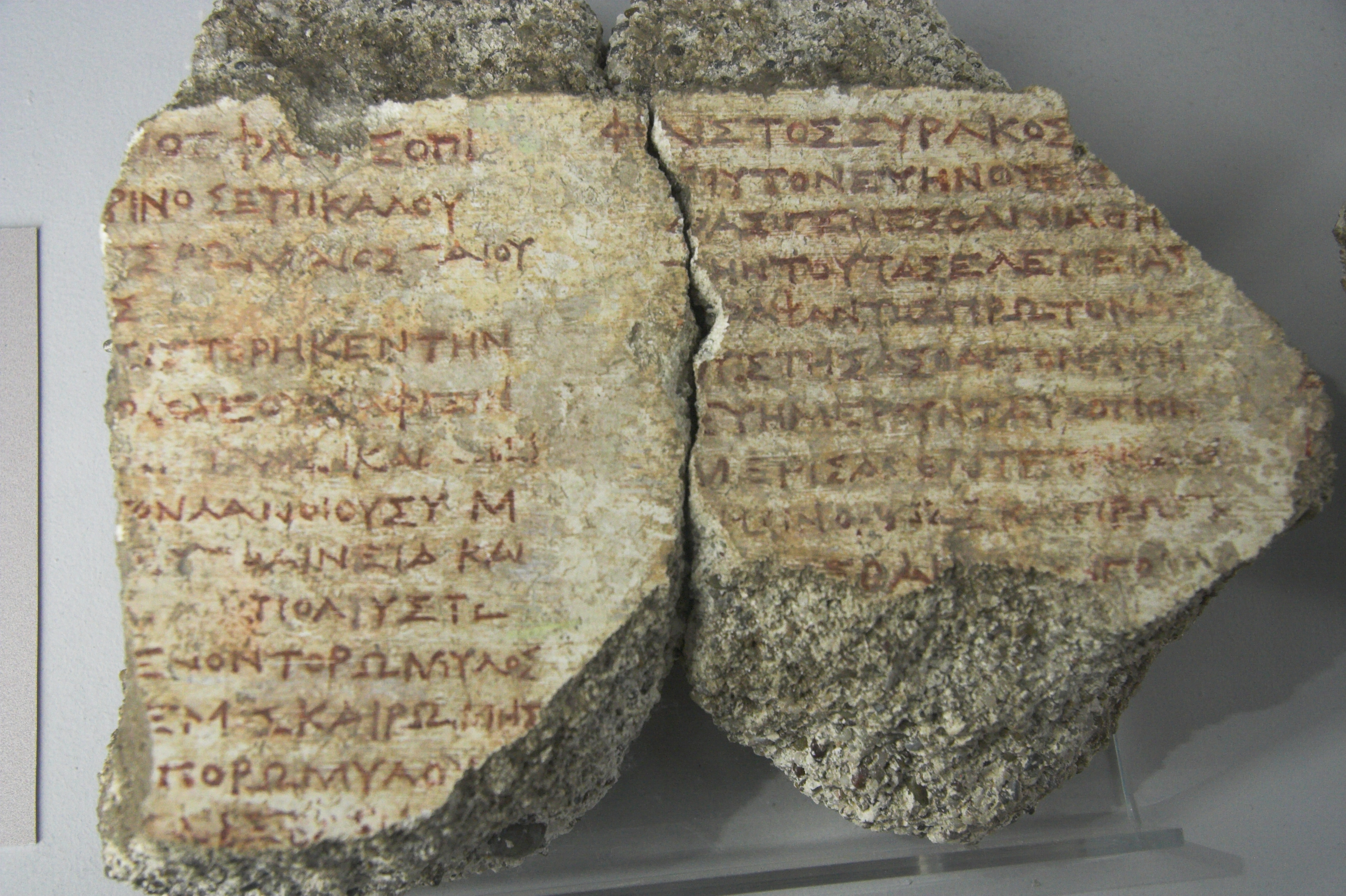 Library cataog from gymnasion of the Hellenistic period. Found in 1969 in the cistern next to hotel the Bristol Park in Taormina. Lapidary and epigraphic collection of Greek Theatre of Taormina.